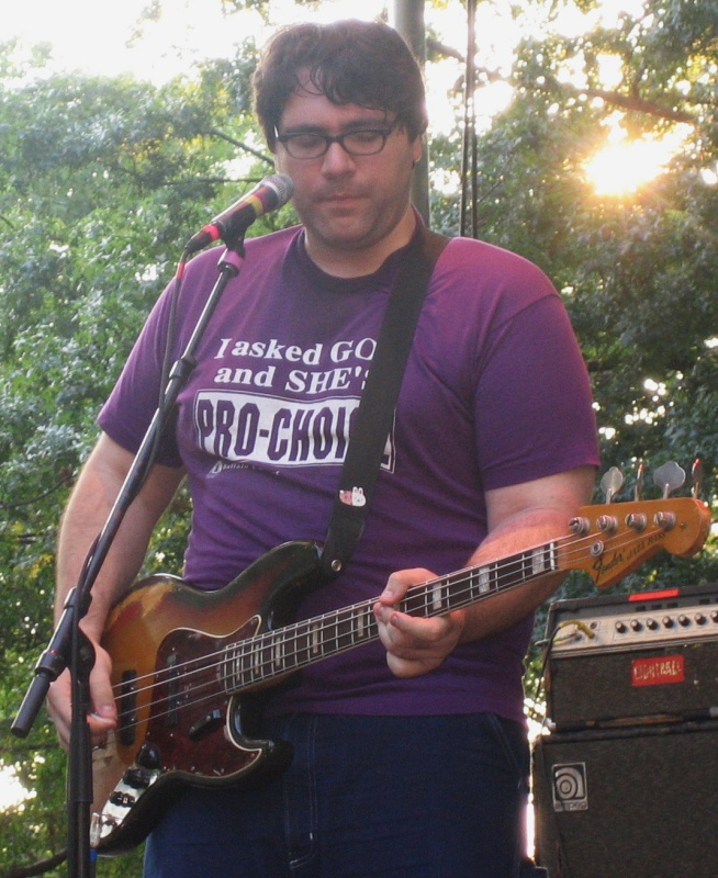 This is a picture of musician James McNew of the rock band Yo La Tengo. This picture was taken by Karl Ward on 4 July 2005 at the River To River Festival show in Battery Park in New York City. A Canon Powershot SD200 digital camera was used to capture the image. Copyright (c) 2005 Karl Ward.